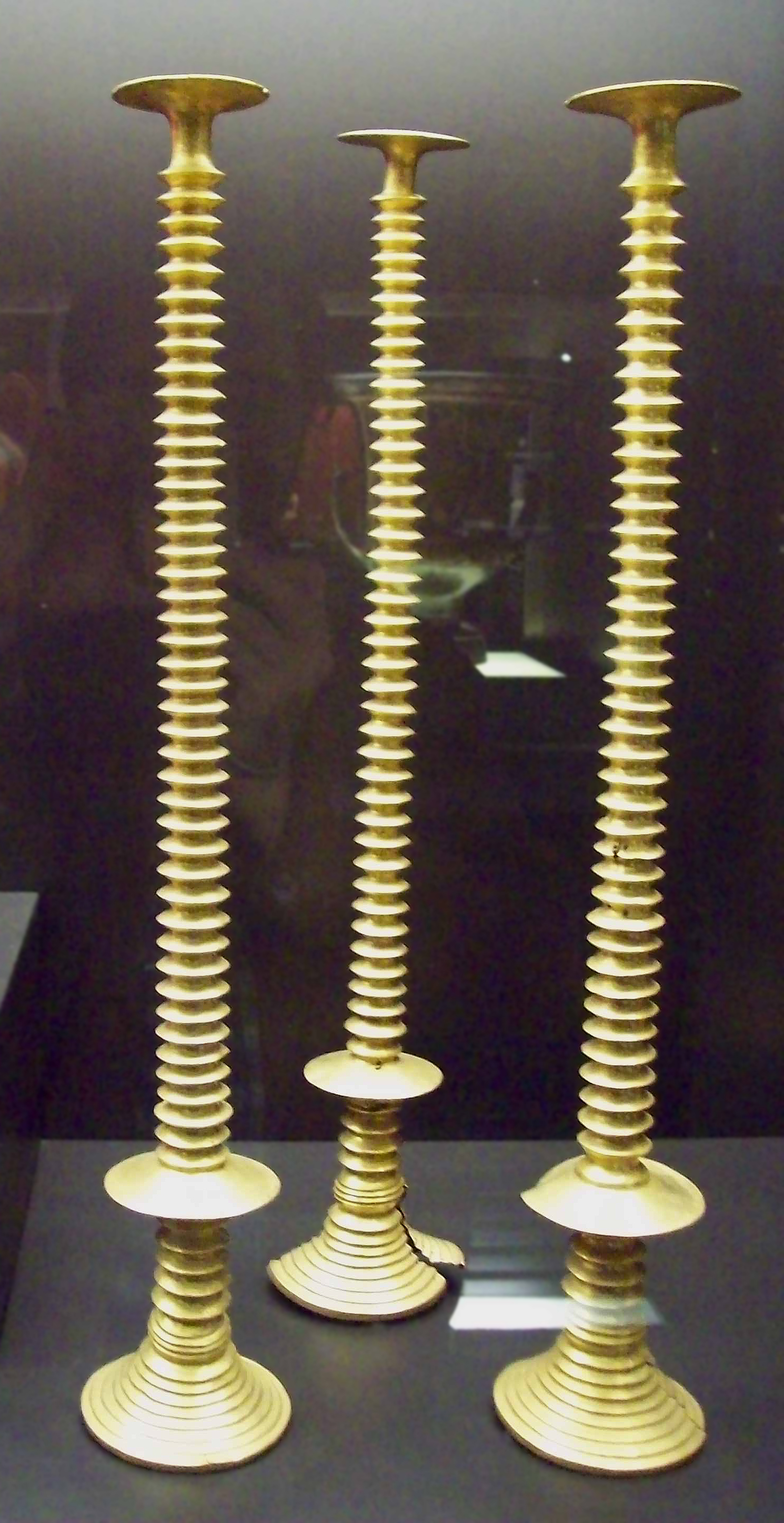 Three thymiateria from the Tartessian Orientalizing Period (Iron Age I), part of a group of six, called Candlesticks of Lebrija.